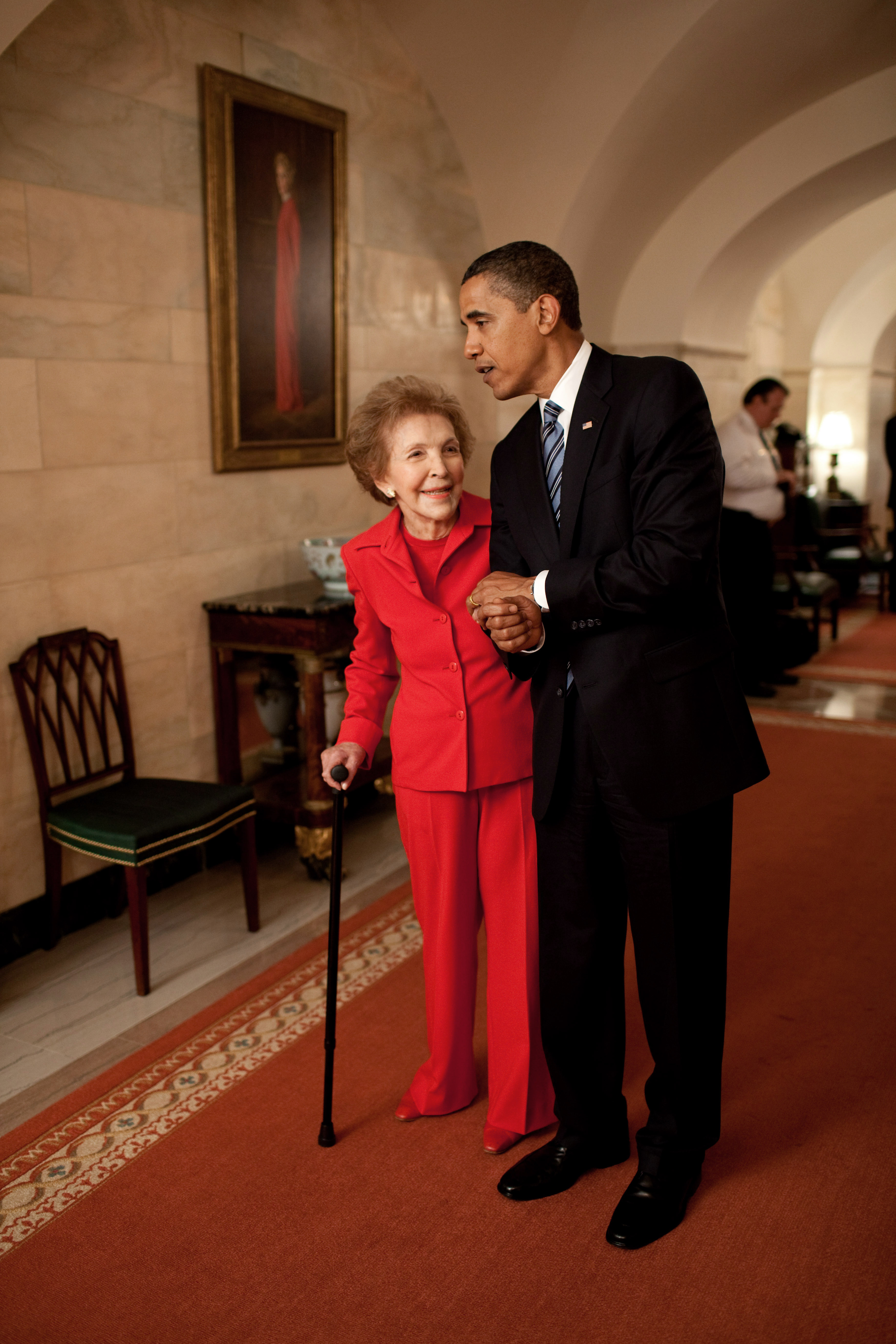 President Barack Obama and former First Lady Nancy Reagan walk side-by-side through Center Hall in the White House, June 2, 2009. To the left of Mrs. Reagan hangs her official White House portrait as First Lady. (Official White House Photo by Pete Souza) This official White House photograph is in the public domain from a copyright perspective, so while restrictions such as personality or privacy rights may apply, in general, manipulations are allowed.